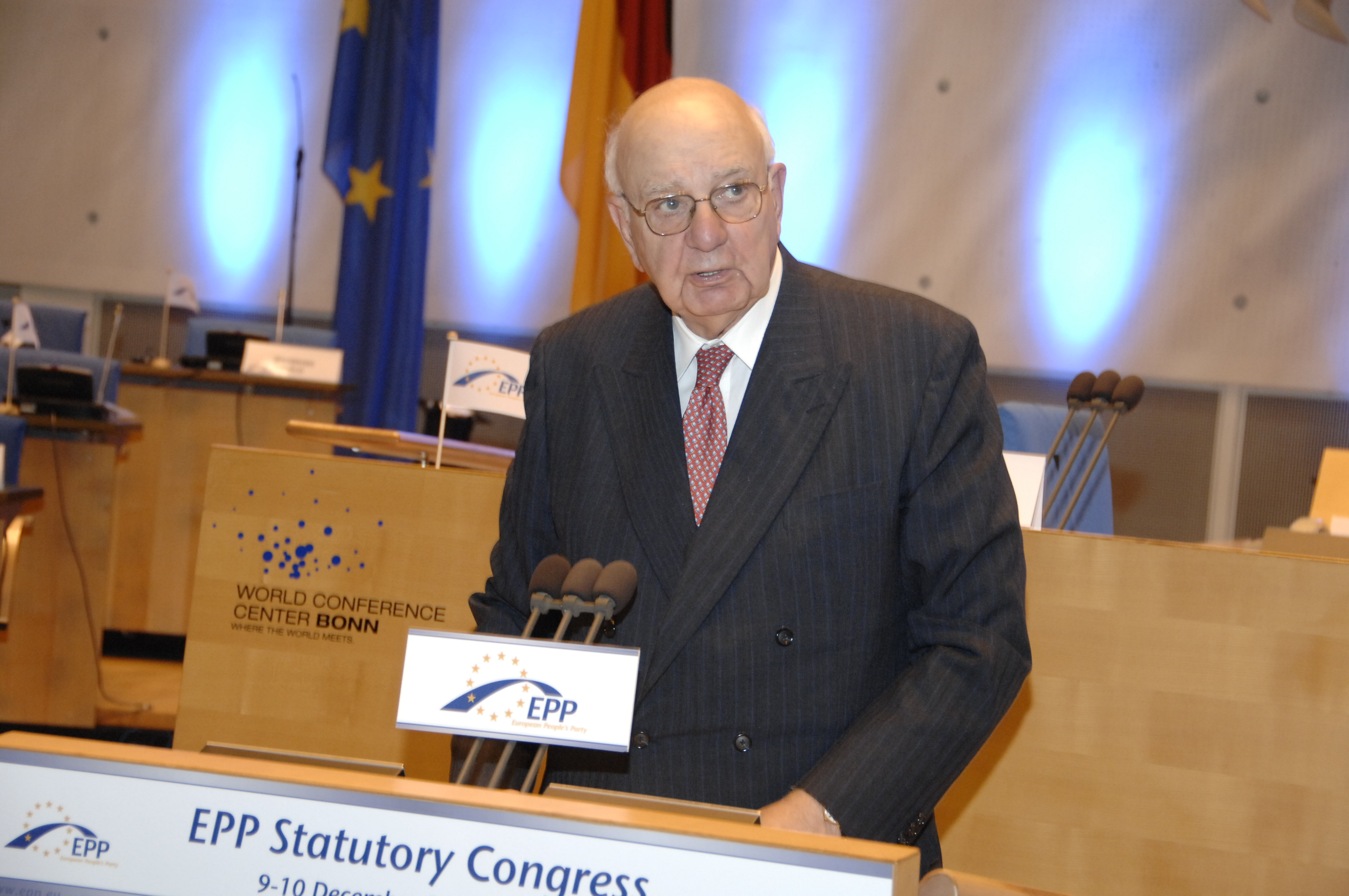 EPP Congress Bonn